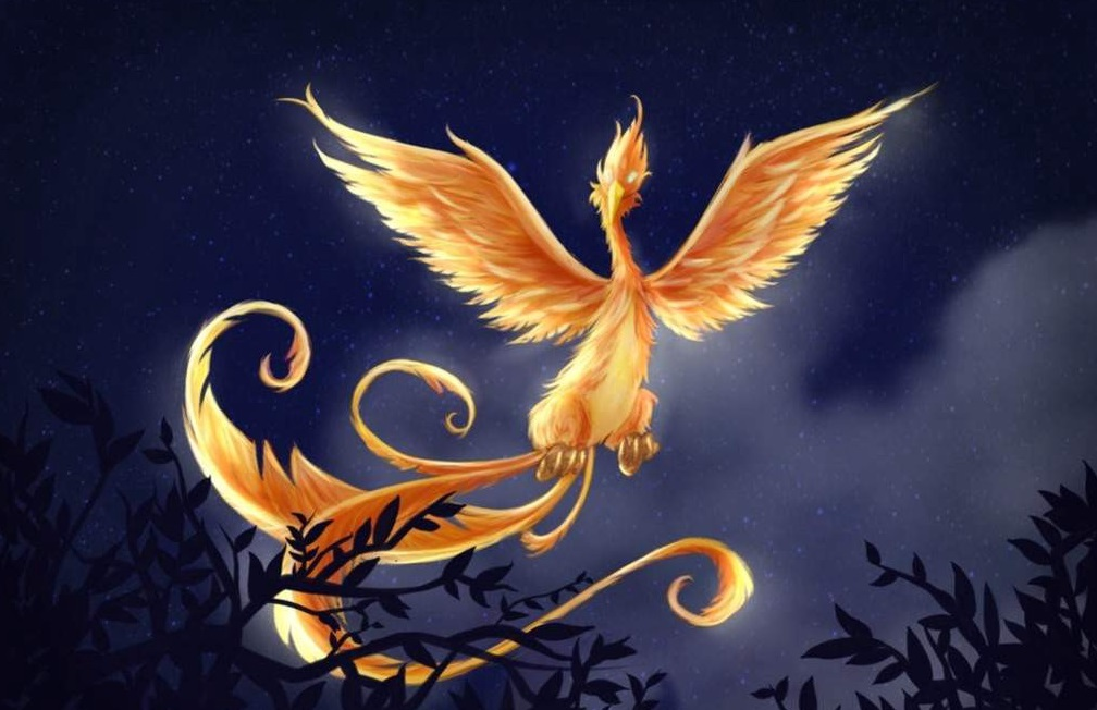 Representación del Alicanto, ave mitológica del norte de Chile